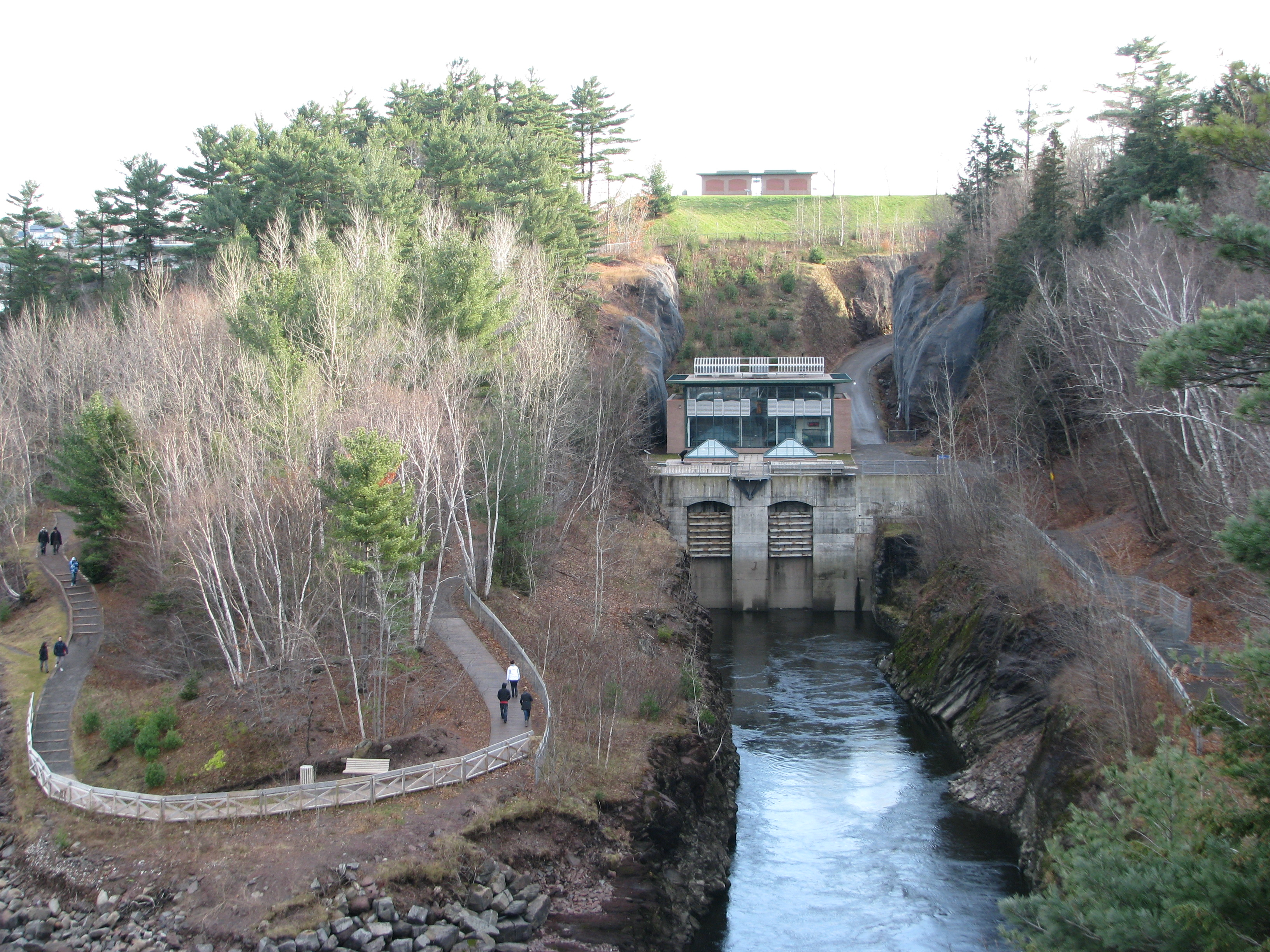 Chaudière hydroelectric power plant in Lévis, Quebec (Canada)